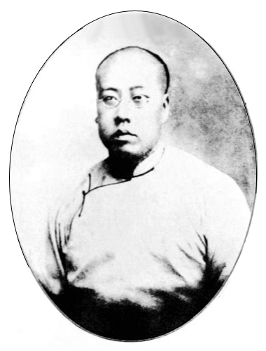 Cai Rukai (1869-1923)